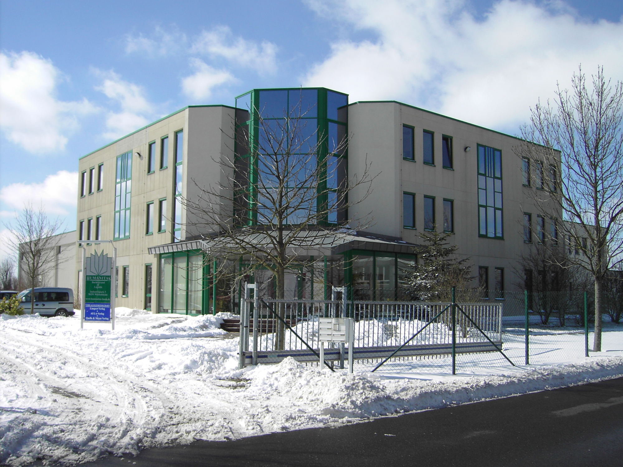 Publishing Houses Quelle & Meyer Verlag, Limpert Verlag, AULA-Verlag in Wiebelsheim, Rhineland-Palatinate, in March 2013.